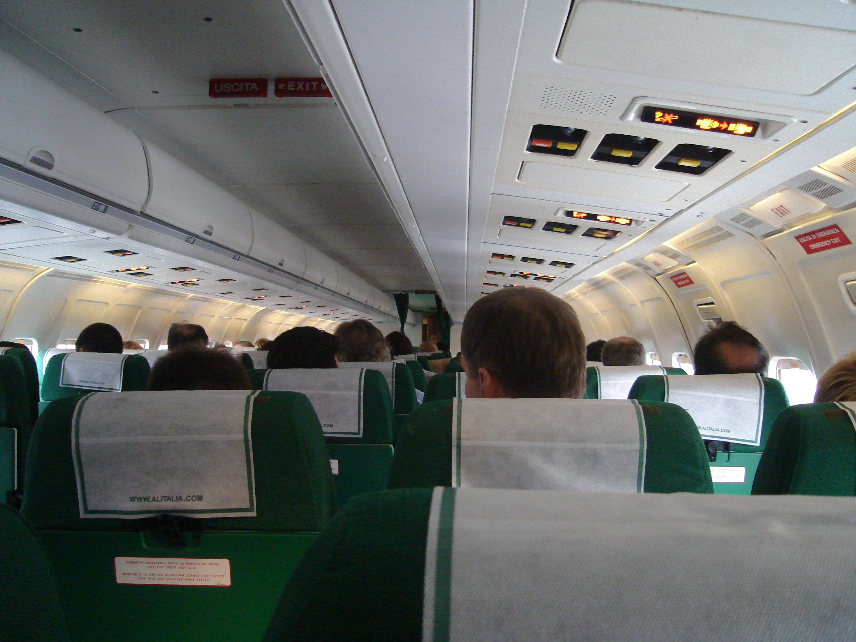 Interior of Douglas DC-9 (MD-82), Alitalia (I-DACS)